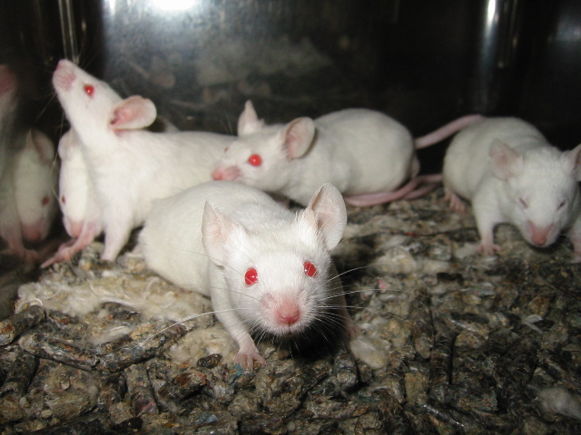 Laboratory mice Location: Children's Hospital Los Angeles Research Institute, Los Angeles, CA Equipment: Canon PowerShot S110